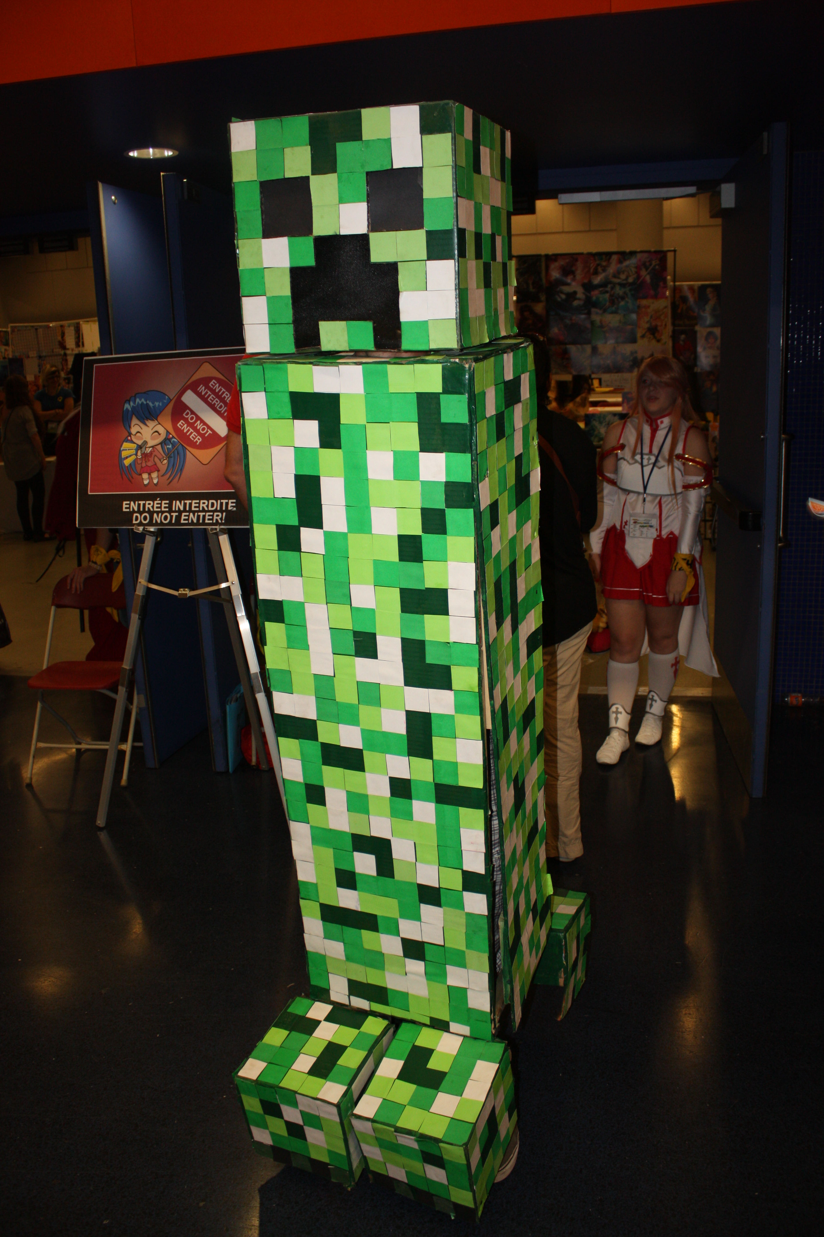 takuthon 2014: Creeper